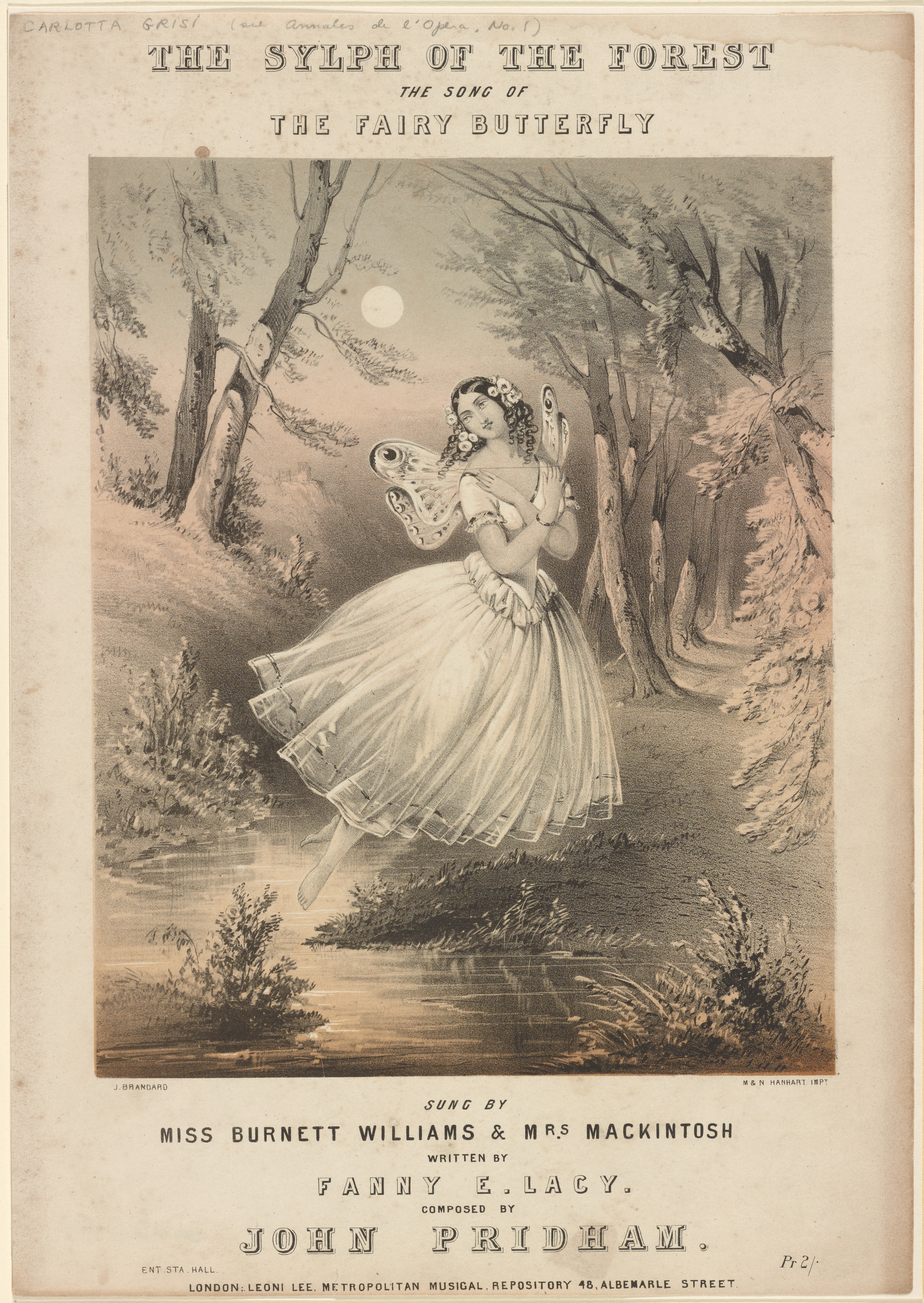 Caption: The sylph of the forest. The song of The fairy butterfly sung by Miss Burnett Williams & Mrs. Mackintosh written by Fanny E. Lacy. Composed by John Pridham. Music title page. Depicts the dancer floating through the air over a pond, arms clasped to her breast. Wings attached to her back, flowers in her hair.